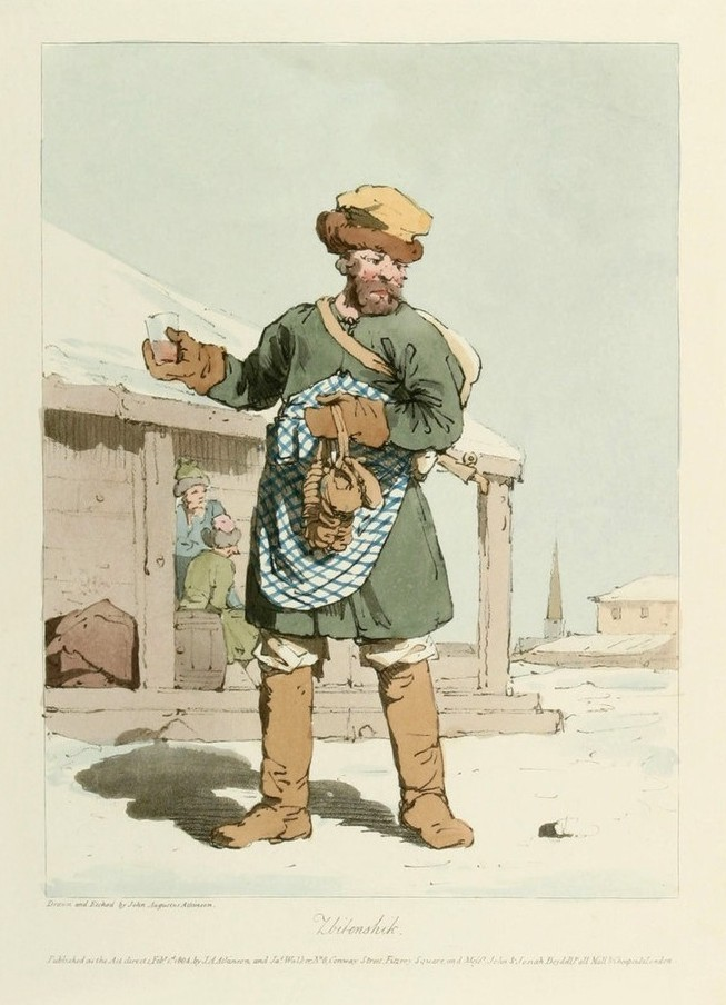 Sbitenshchik